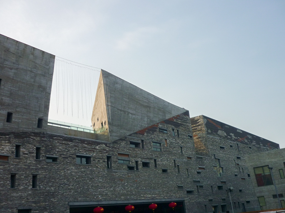 Ningbo Museum Appearance